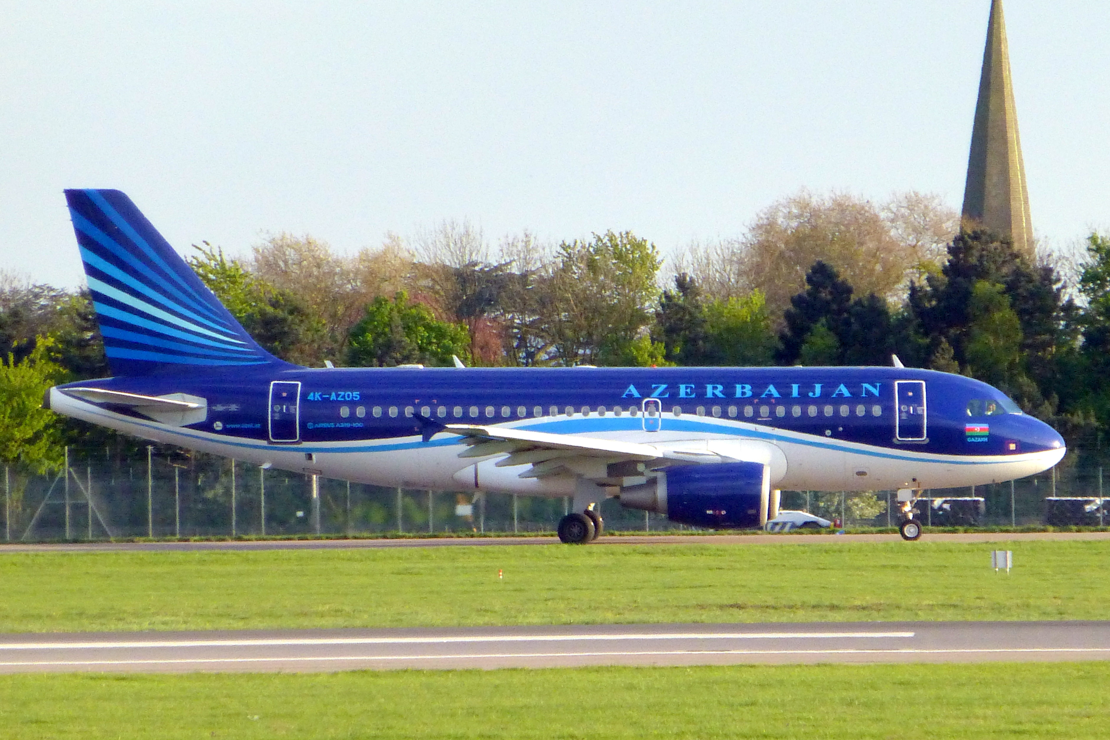 4K-AZ05 A319 Azerbaijan Airways on the southern taxiway heading for the 09 threshold.